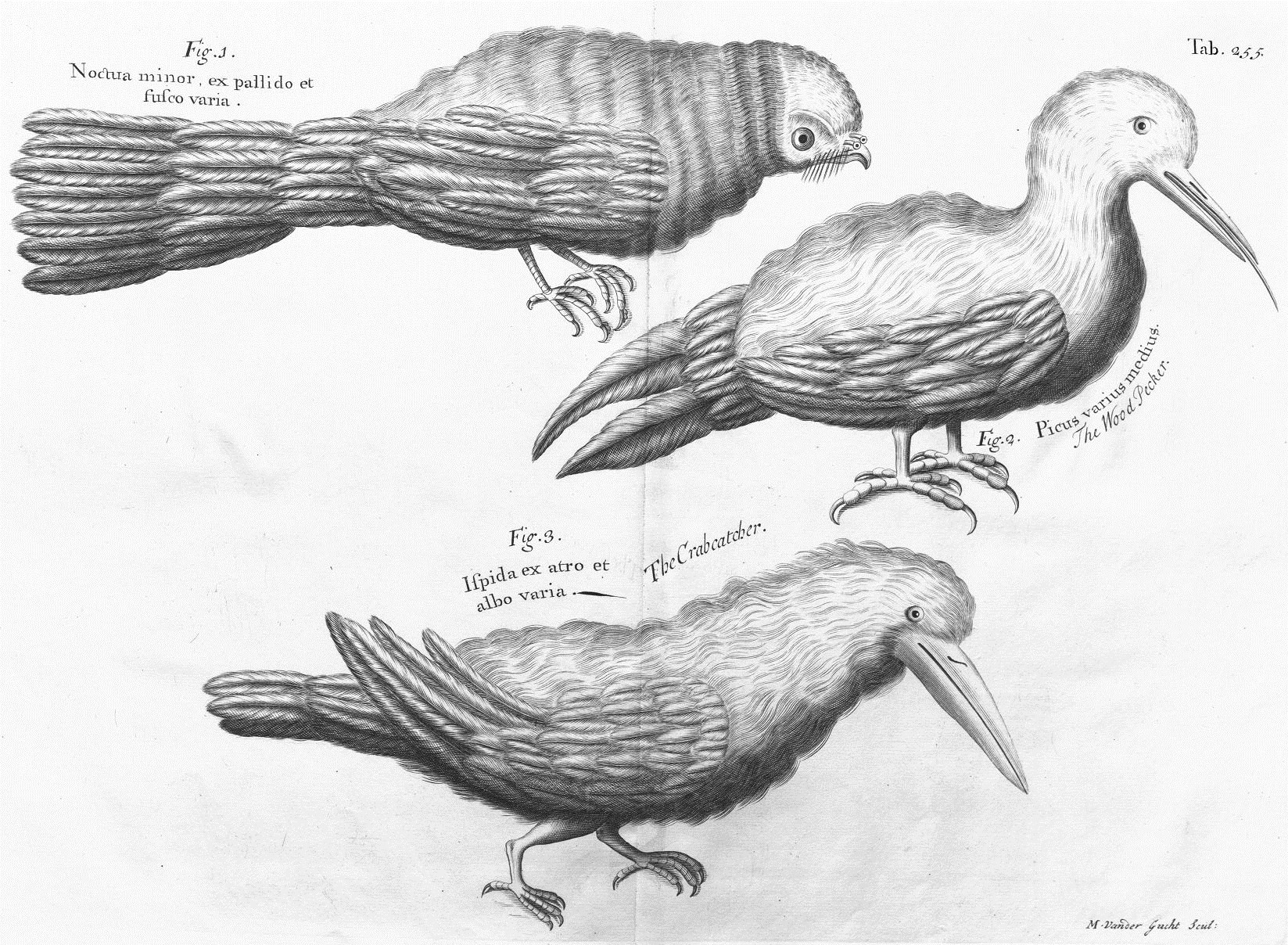 Jamaica Least Pauraque (Siphonorhis americana, above) depiction from 'A voyage to the islands Madera, Barbados, Nieves, S. Christophers and Jamaica; with the natural history of the herbs and trees, four-footed beasts, fishes, birds, insects, reptiles, etc. of the last of those islands; to which is prefix'd, an introduction, wherein is an account of the inhabitants, air, waters, diseases, trade, &c. of that place, with some relations concerning the neighbouring continent, and islands of America.' by from the year